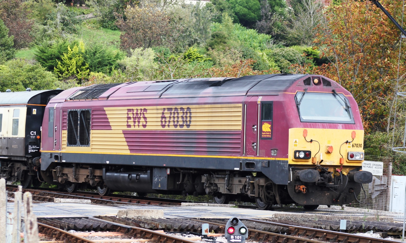 DB Cargo's 67030 on a visit to Kingswear with an excursion from Eastleigh.